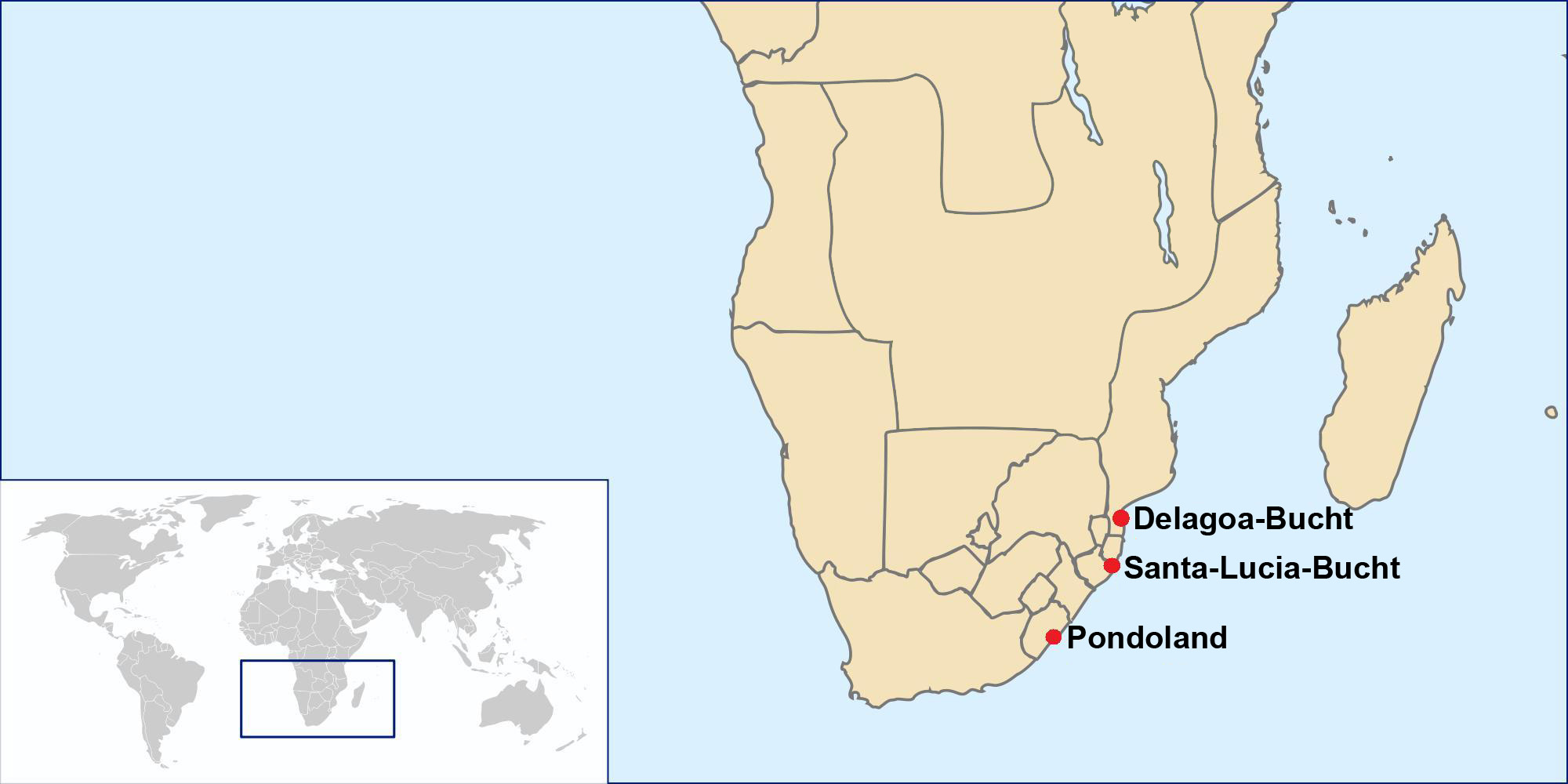 Africa south of the equator, with the political boundaries of the 1880s. The Berlin Conference of 1884 was responsible for outlining and adjudicating the colonial territorial claims.